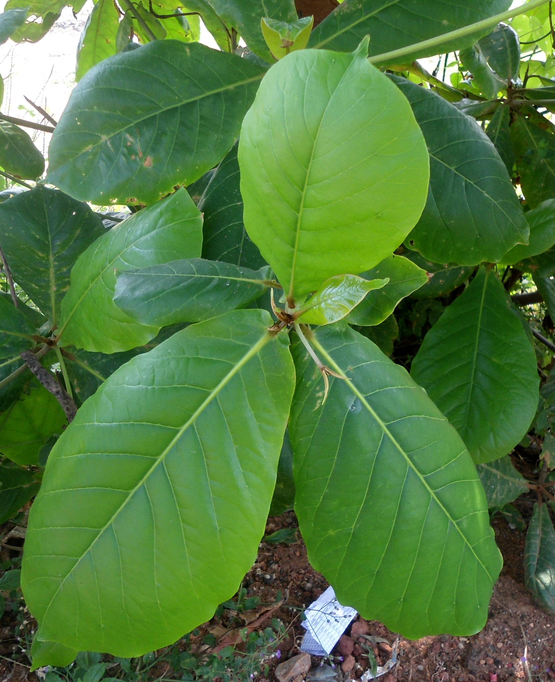 Foliage of Terminalia catappa (Indian almond) at Tenneti Park in Visakhapatnam, Andhra Pradesh